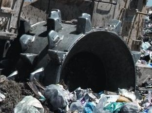 Picture of a wheel of a Caterpillar 826C landfill compactor.